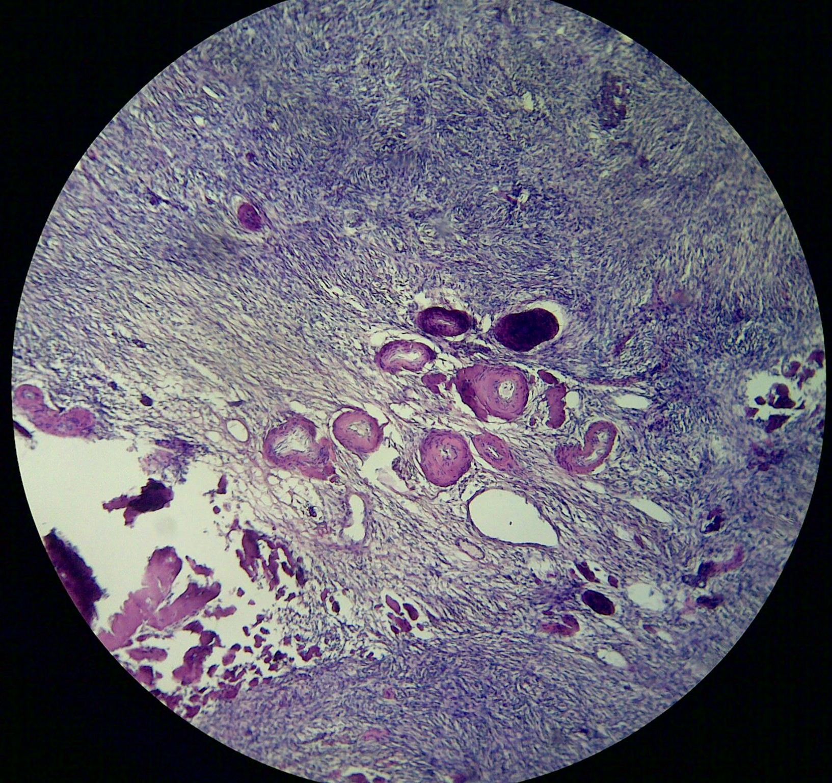 Hyalinosis of ovarial vessels